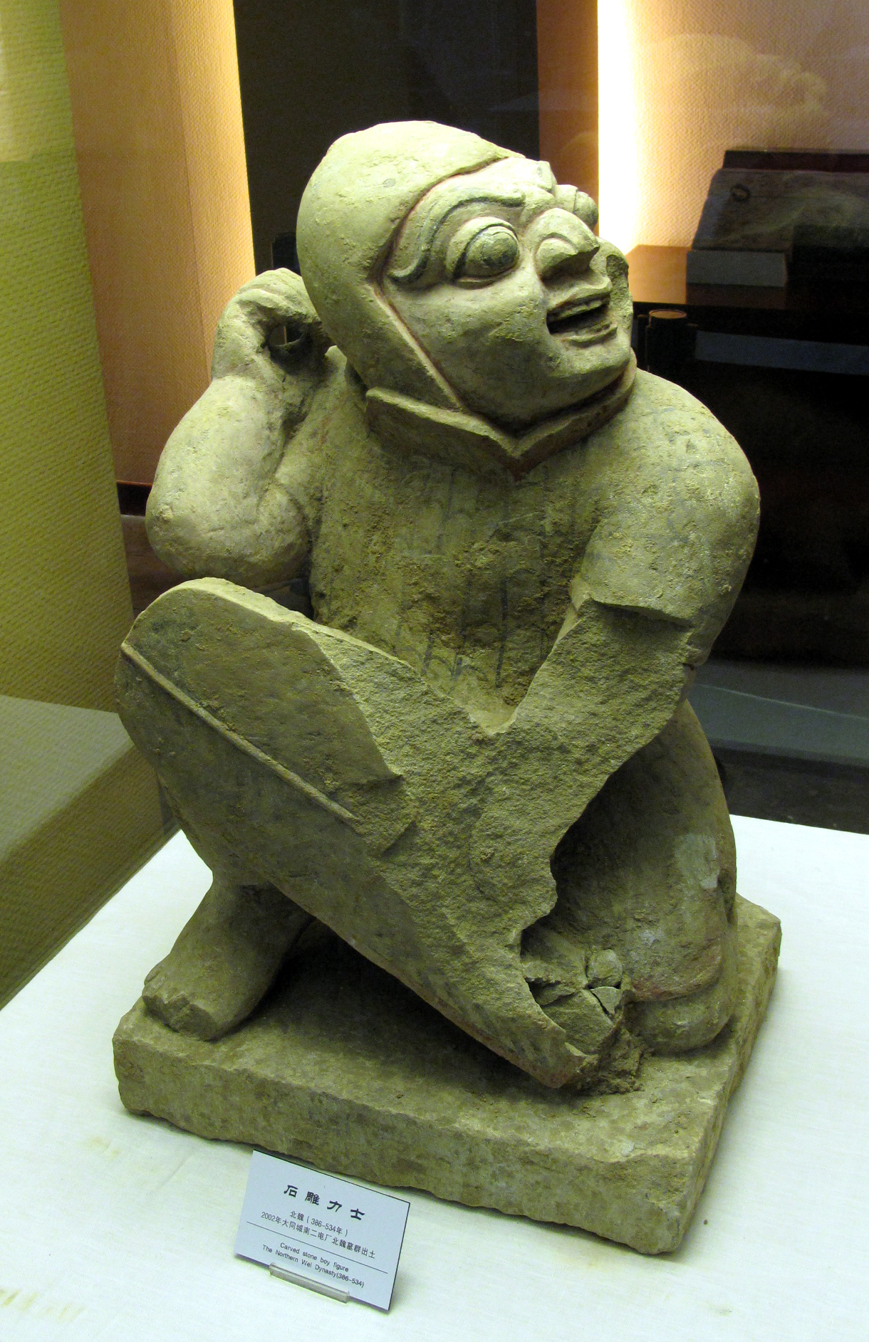 Kneeling Singer. Northern Wei. Datong City Museum This lively stone sculpture depicts a kneeling singer with head turned and open mouth. The figure is clothed in Tuoba costume, with a leather helmet and cloth coat. He supports an instrument of some kind between his legs, probably a monochord (one-stringed zither) but hard to identify because of damage to that part of the statue; he may have held the instrument's bow in his upraised hand.